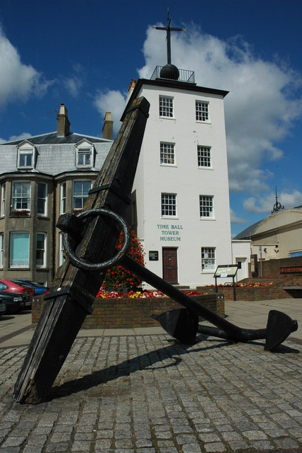 Anchor and Timeball Tower In the days before wireless communication this tower was used to communicate with ships at sea, the time balls drops every hour. Today the tower houses a museum.